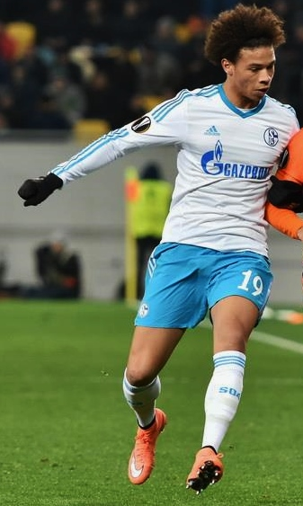 Leroy Sané